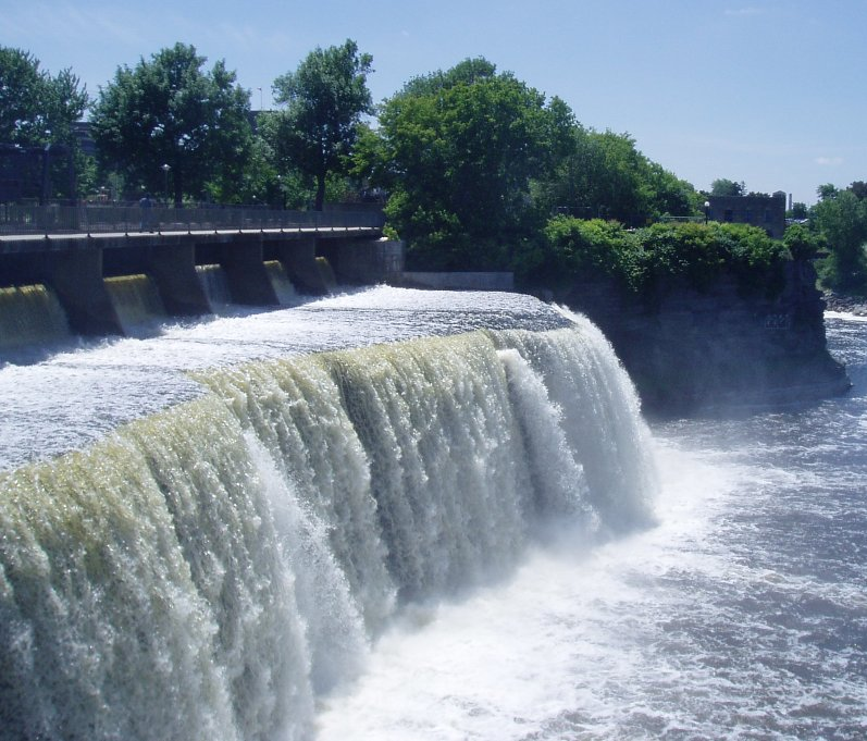 Taken by SimonP in June 2005